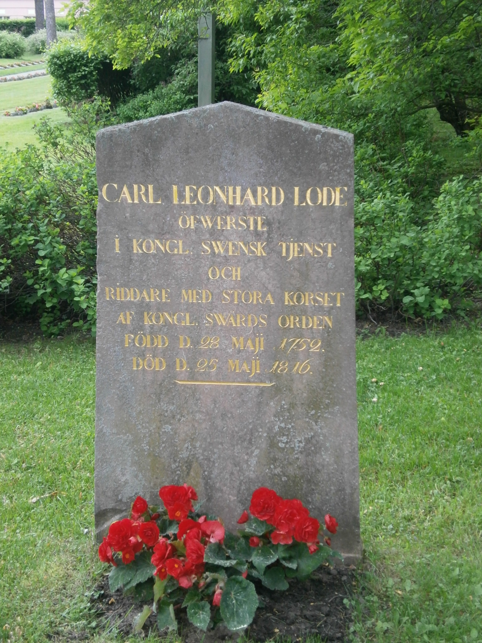 Hauta Sankaripuistossa Kuopiossa